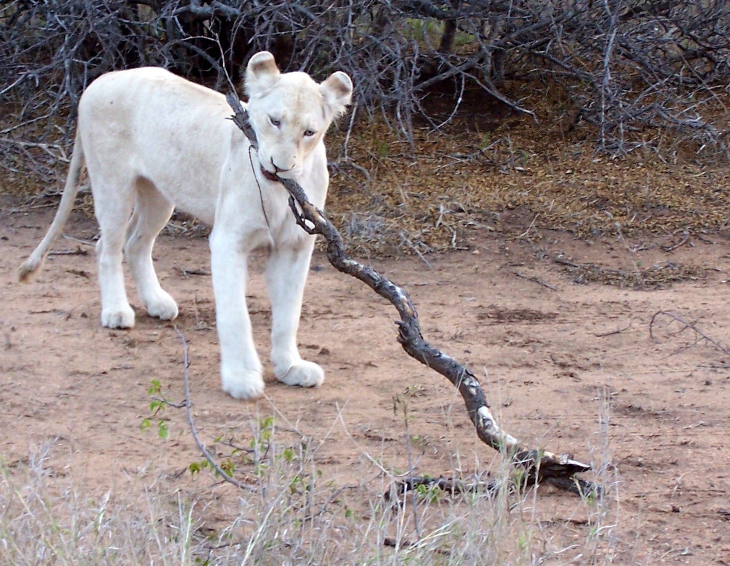 Adolescent White Lion; Kruger, SA , Nov 2010